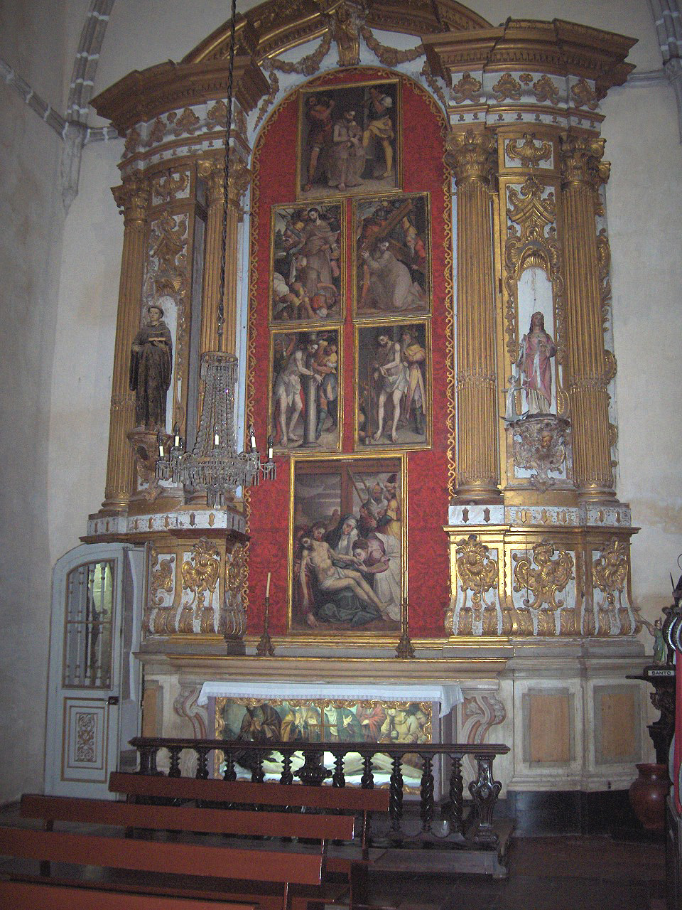 Side chapel with paintings (16th c., Flemish School); Igreja de São Francisco, Évora, Portugal